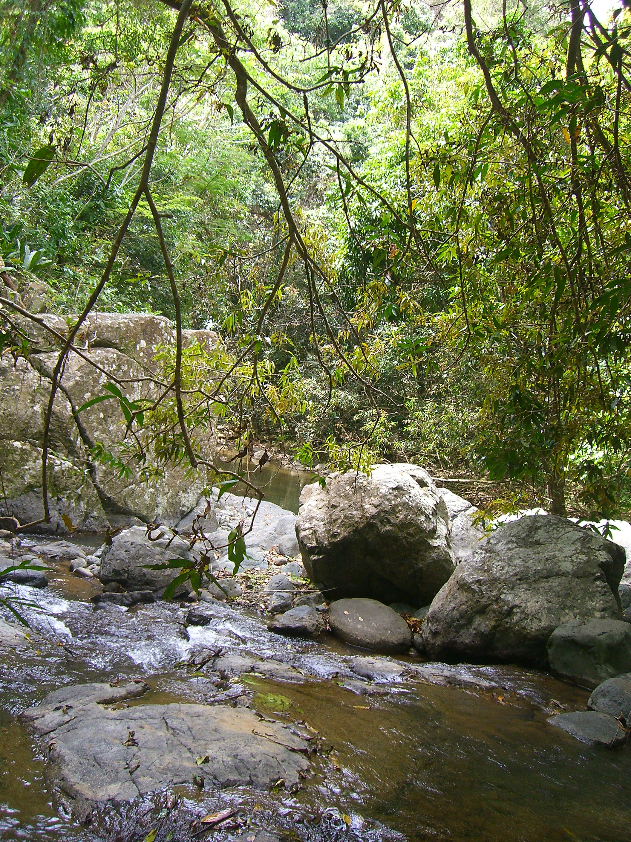 Rio Canas in the municipality of Ponce, Puerto Rico, as it crosses through historic Hacienda Buena Vista